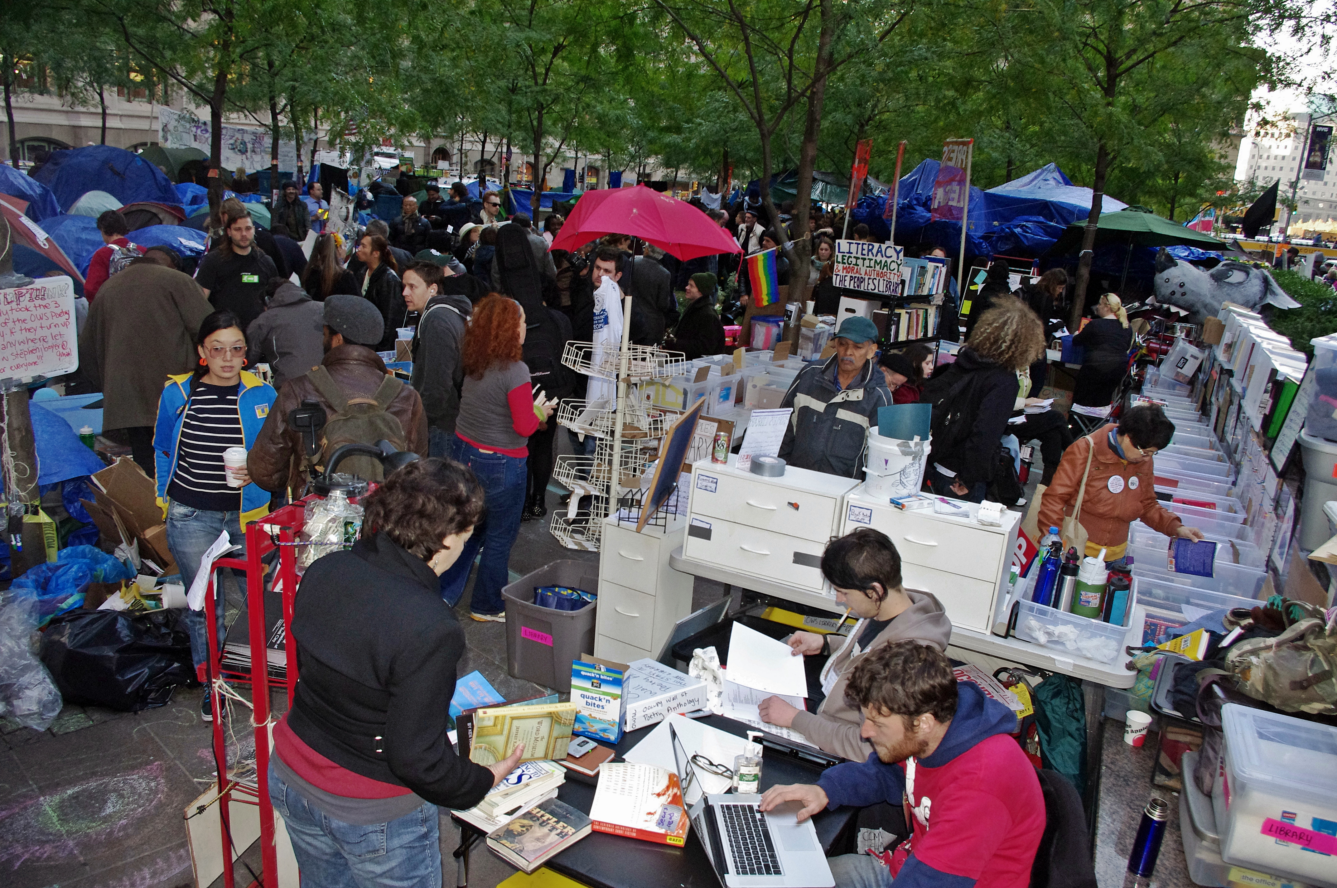 Photos from Zuccotti Park on Wednesday, November 2, Day 47 of Occupy Wall Street.